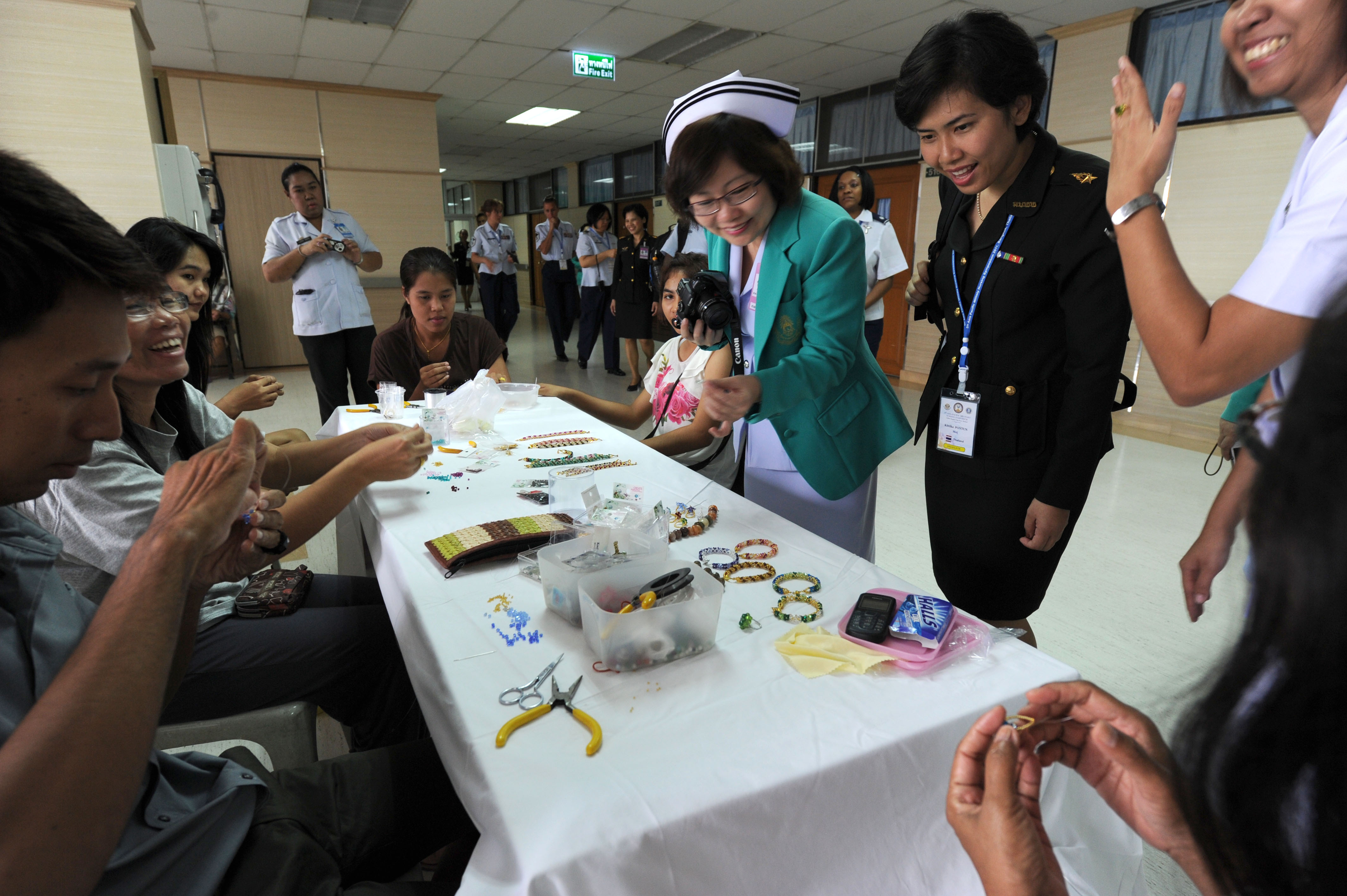 Members of the military nursing community in the Pacific region watched as family members of a patient at Phramongkutklao Hospital in Bangkok, Thailand make jewelry that will be used to raise money that will offset future hospital care. The nursing community toured the prestigious hospital on Aug. 3 as part of the 2011 Asia Pacific Military Nursing Symposium, which is sponsored by Pacific Command and executed under the direction of 13th Air Force. This is the fifth year of the symposium, which started at Hickam Air force Base in 2007, and the first time that Thailand has hosted the event. More than 12 countries from the Asia-Pacific region have come together to build on relationships by exchanging information and techniques with one another.